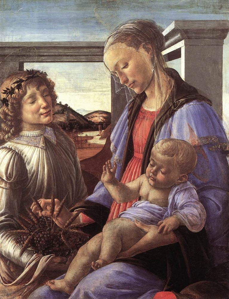 All look down at a bowl of grapes with grain, symbols Grapes and wheat, symbols of the Eucharist, and the blood and body of Christ’s sacrifice. While selecting some wheat, the accepts her child’s fate.